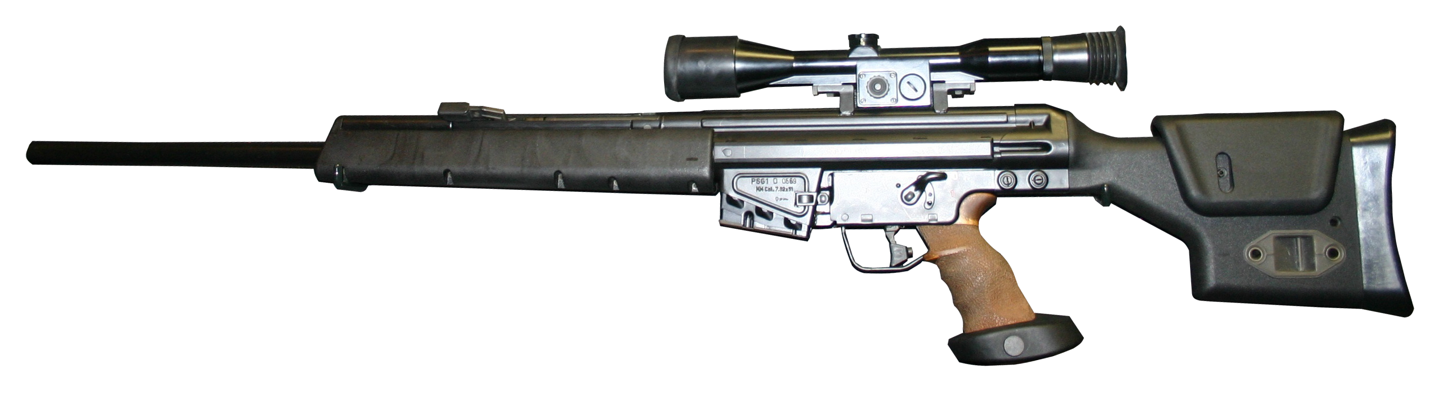 H&K PSG-1 semi-automatic sniper rifle